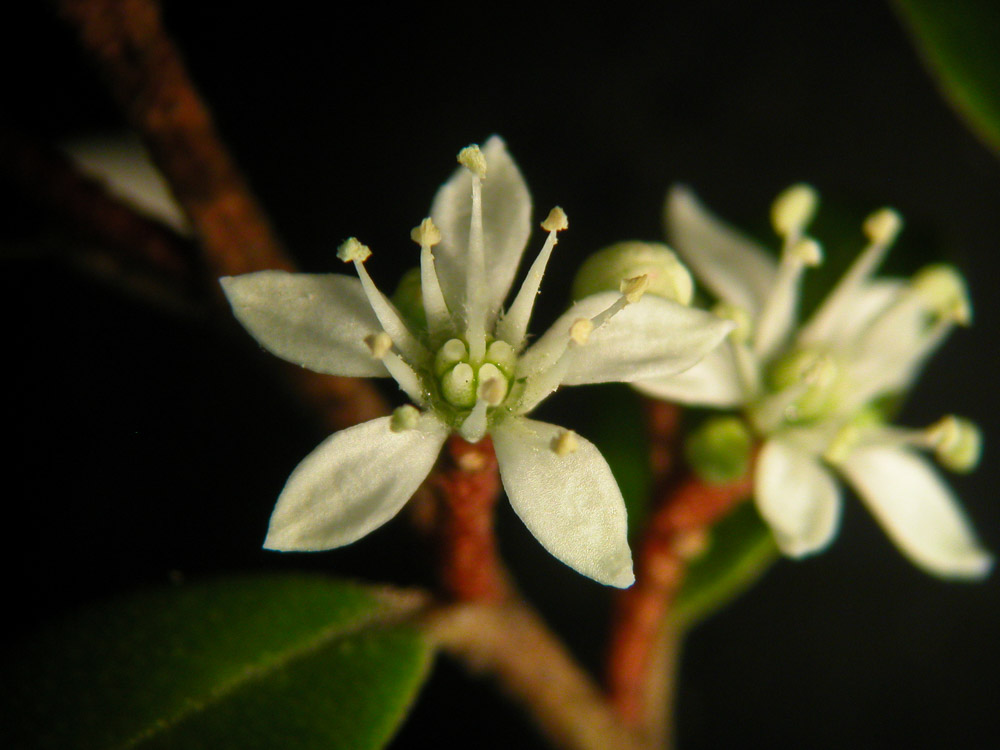 Close up view of Nemtaolepis squamea flower showing five petals and stamens. Photo by Rob Wiltshire, UTAS. Uploaded with photographers permission.